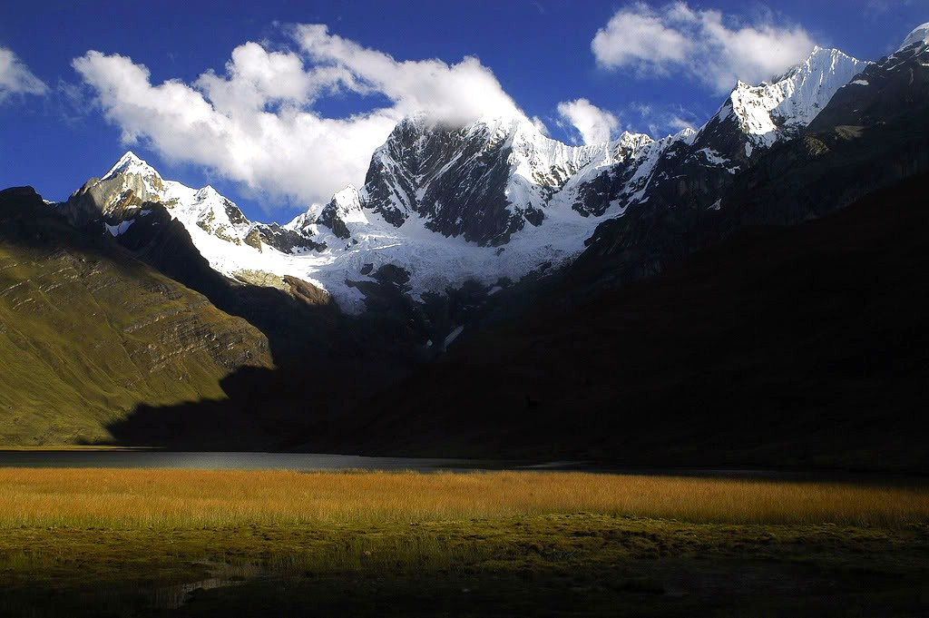 ancash mountains Jirishanca and Rondoy